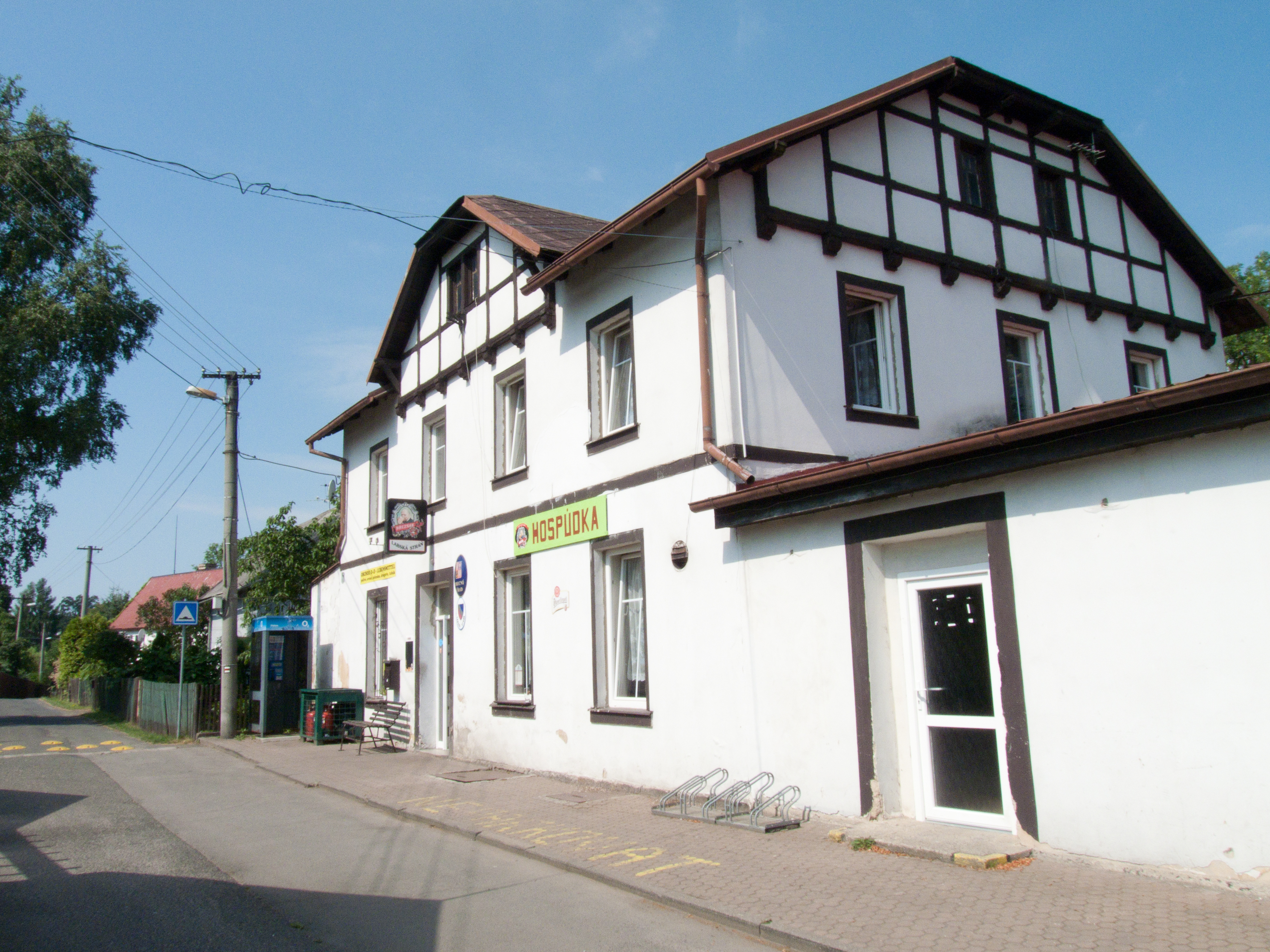 Municipal authority building in the village of Labská Stráň, Děčín District, Czech Republic, which also houses an inn